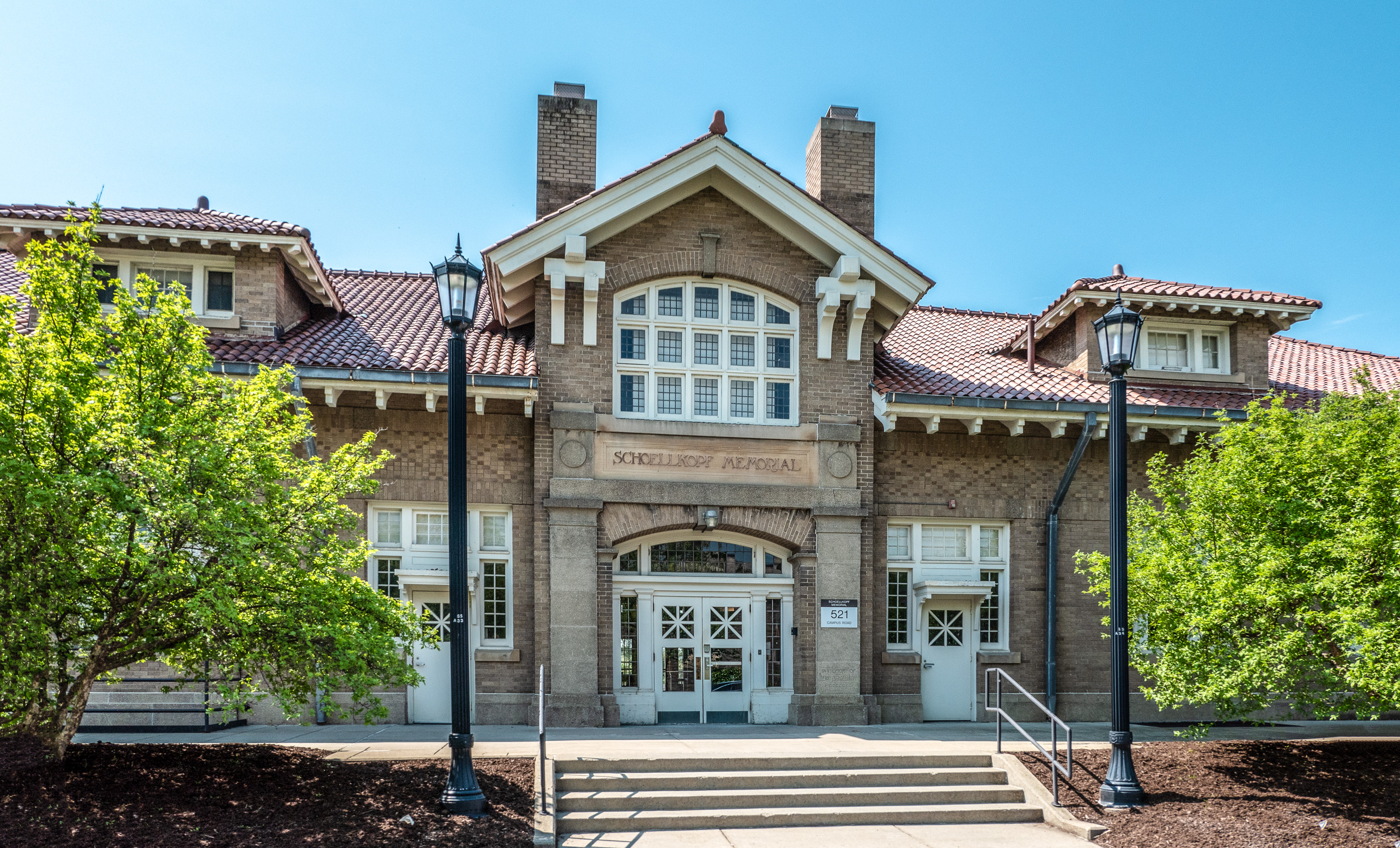 Schoellkopf Memorial Hall, Campus Road, Cornell University. Named in honor of Henry Schoellkopf.